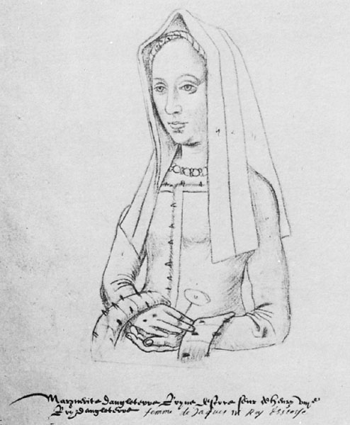 A sketch of Margaret Tudor in the traditional English gable hood